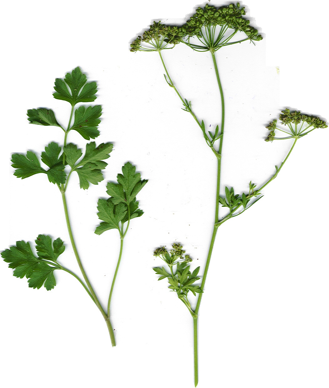 Petroselinum crispum (plant). Location: Maui, Waipoli rd